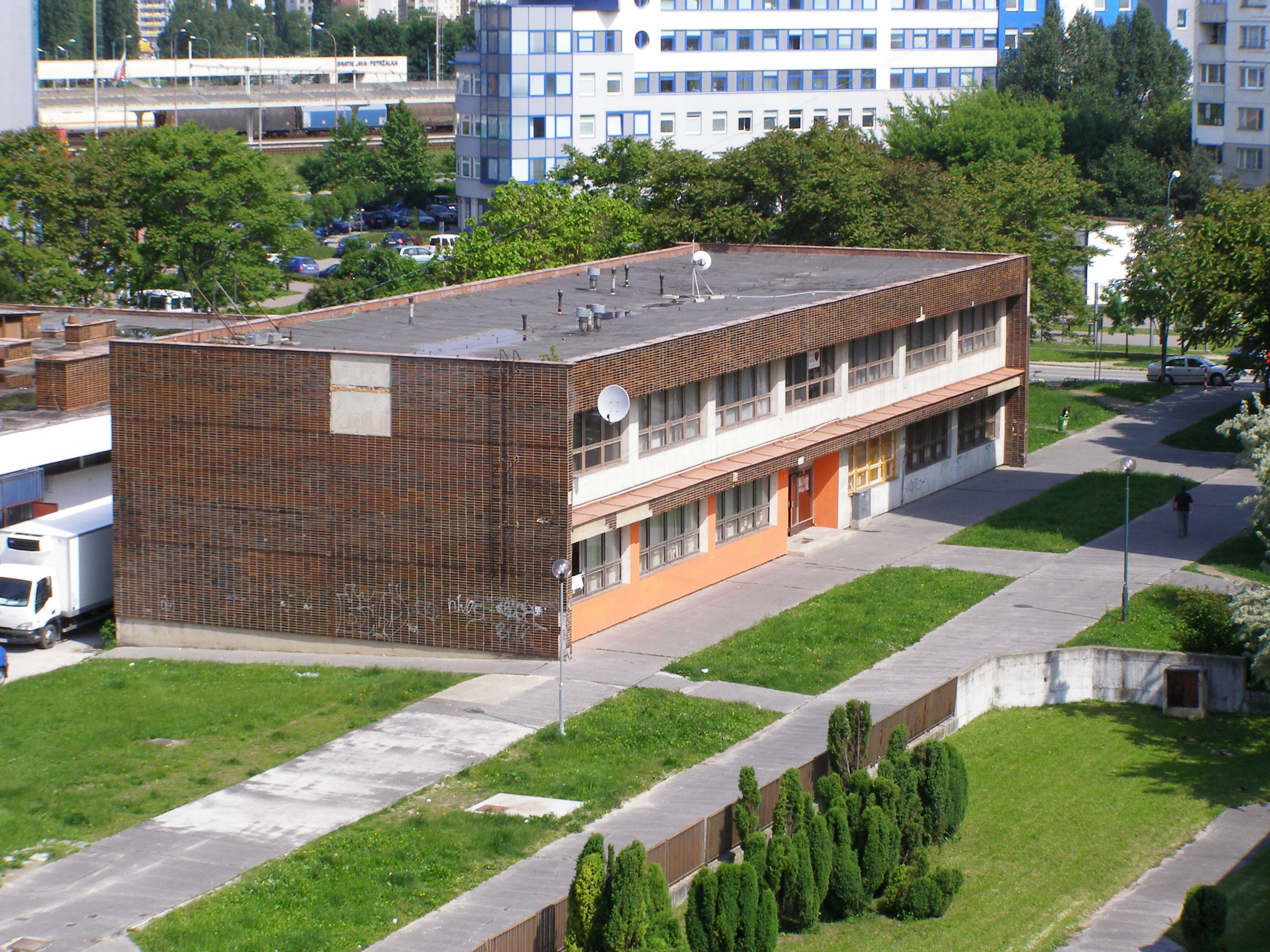 "Mental Health league", Sevcenkova street